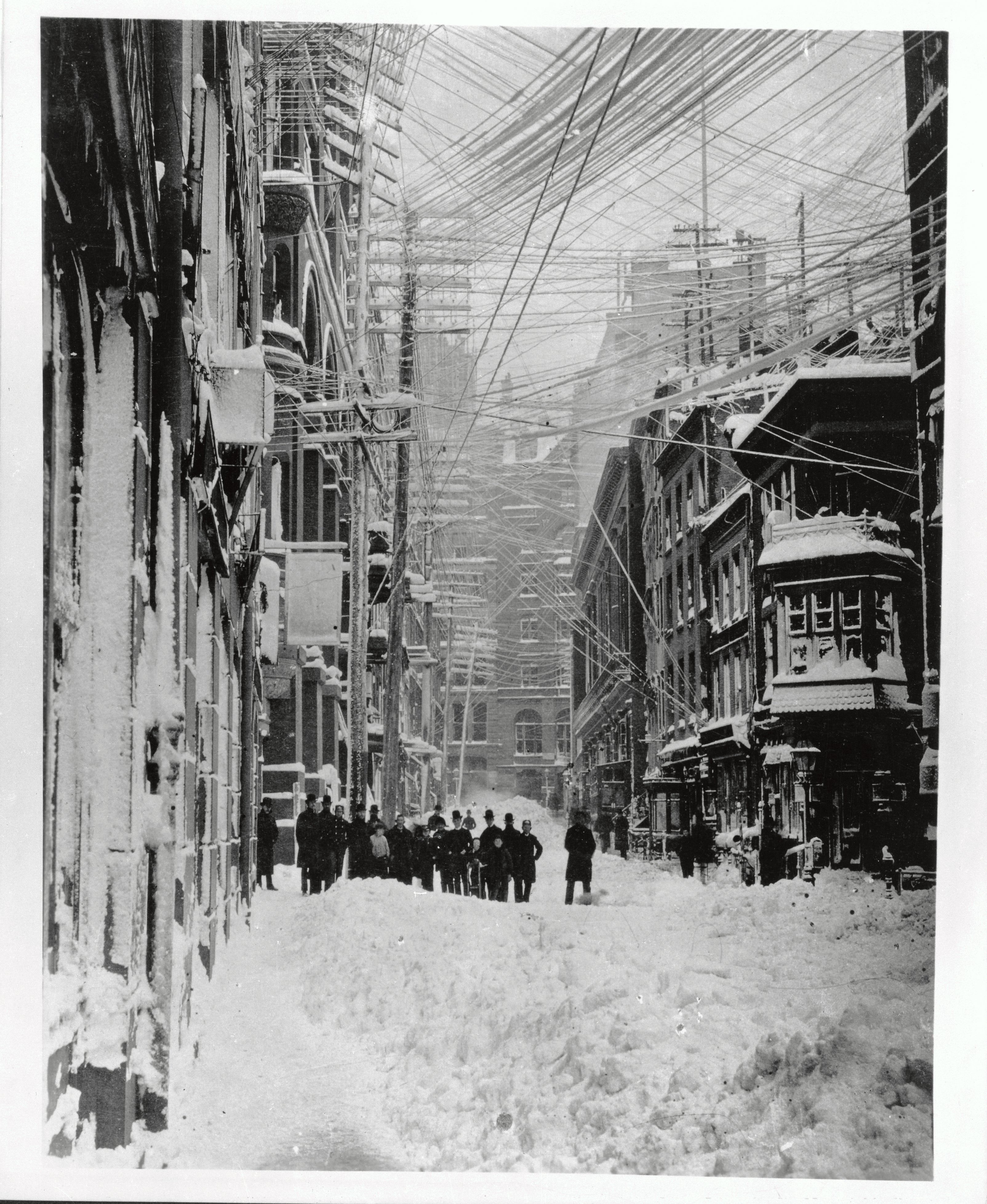 New York City. Source: The New York Historical Society Image available also at a variety of print shops. Somewhat larger version available here. Lupo 11:13, 29 March 2006 (UTC)